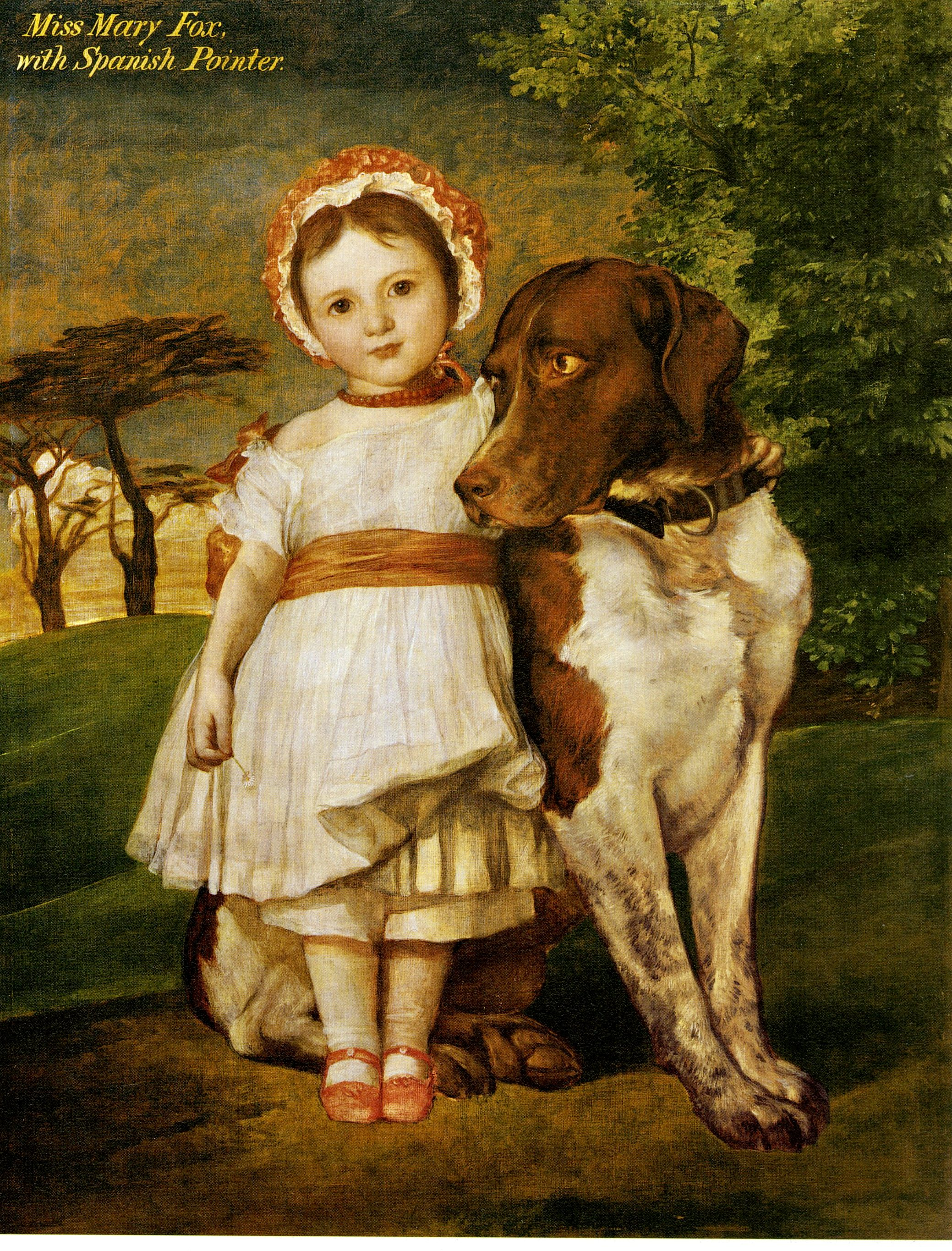 Portrait of Mary Fox (1850-1878) (later Princess Marie of Liechtenstein), adopted daughter of Henry Fox, 4th Baron Holland (1802-1859), of Holland House, Kensington, with her Spanish pointer Elia. In her history of Holland House (Liechtenstein, Princess Marie, Holland House, 2 Vols., London, 1874, p.237[1]) she wrote as follows about this portrait of herself: Mary Fox — an old-fashioned picture of an old-fashioned looking little girl, with a fine Spanish pointer as big as herself, whose name must be mentioned, for auld lang syne, " Elia." "Elia" was a faithful friend and a wise protector. Here he looks on his best behaviour. But he was as good as he looks, except on the sad day when he strayed from home never to return. The canvas of the original picture is 44 inches by 34..